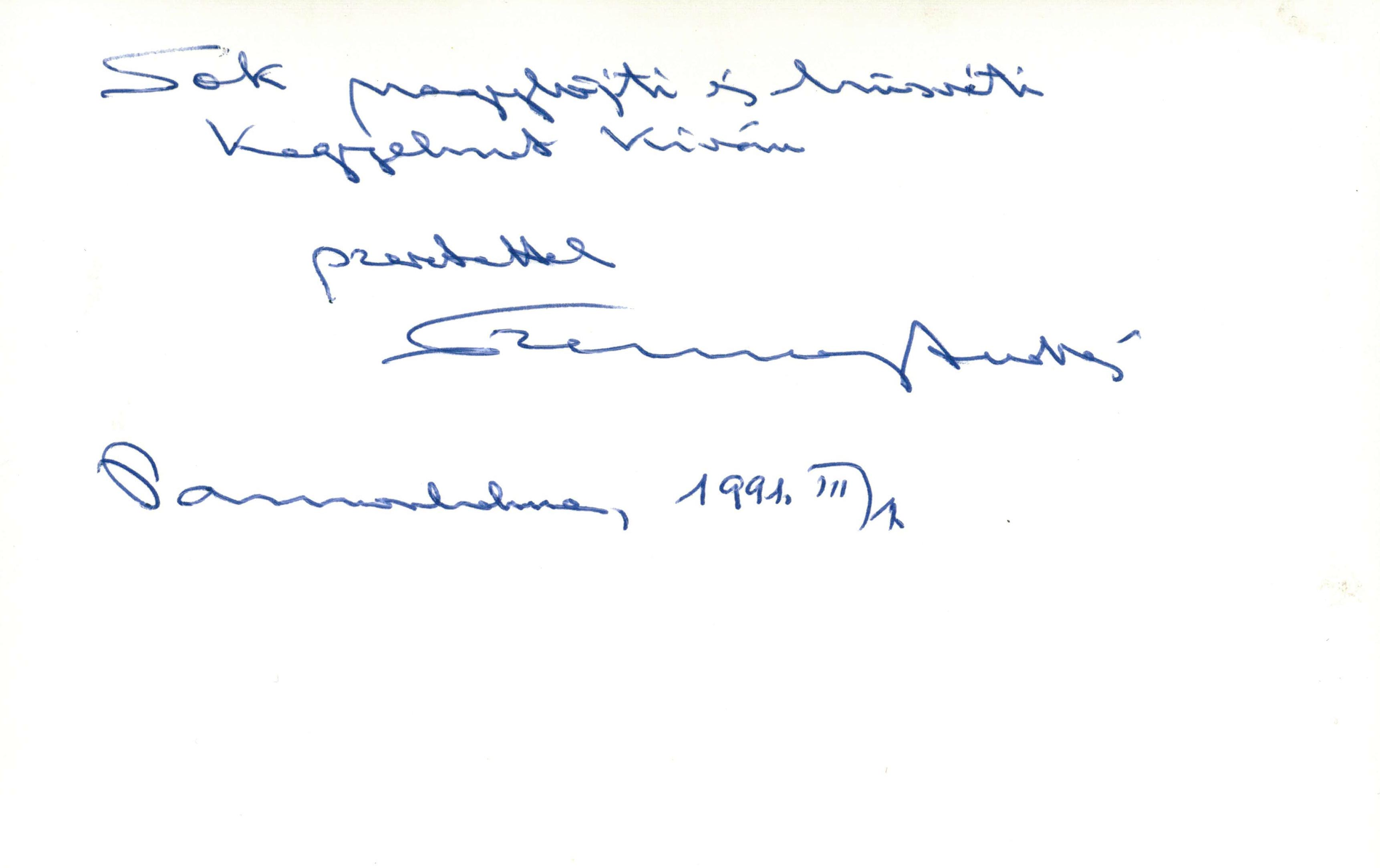 András Szennay Abbott of Pannonhalma, Hungary sends His regards on 1st. March 1991